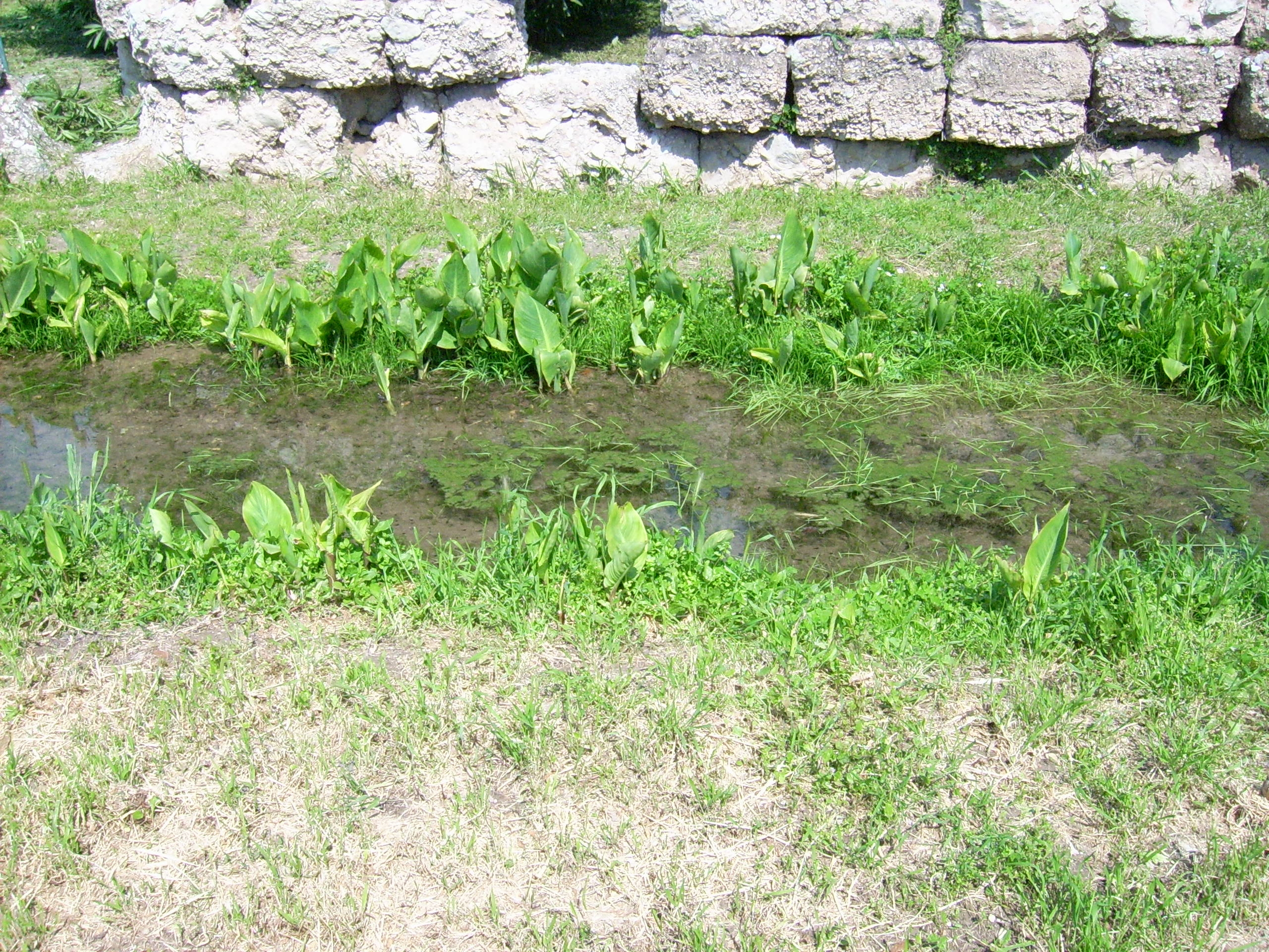 Small stream Eridanos at the Kerameikos in Athens, March 2008